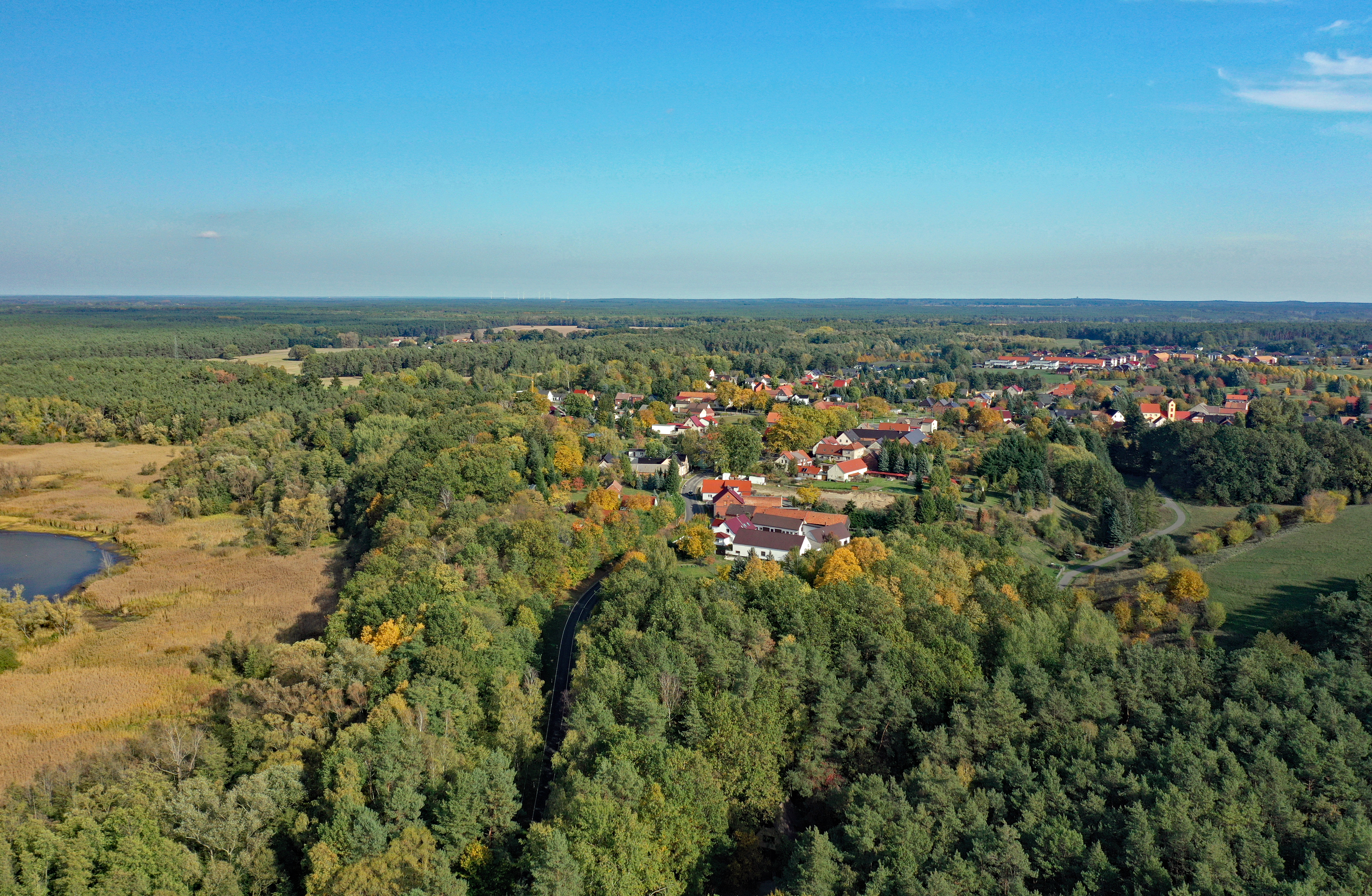 Sellessen (Spremberg, Brandenburg, Germany)